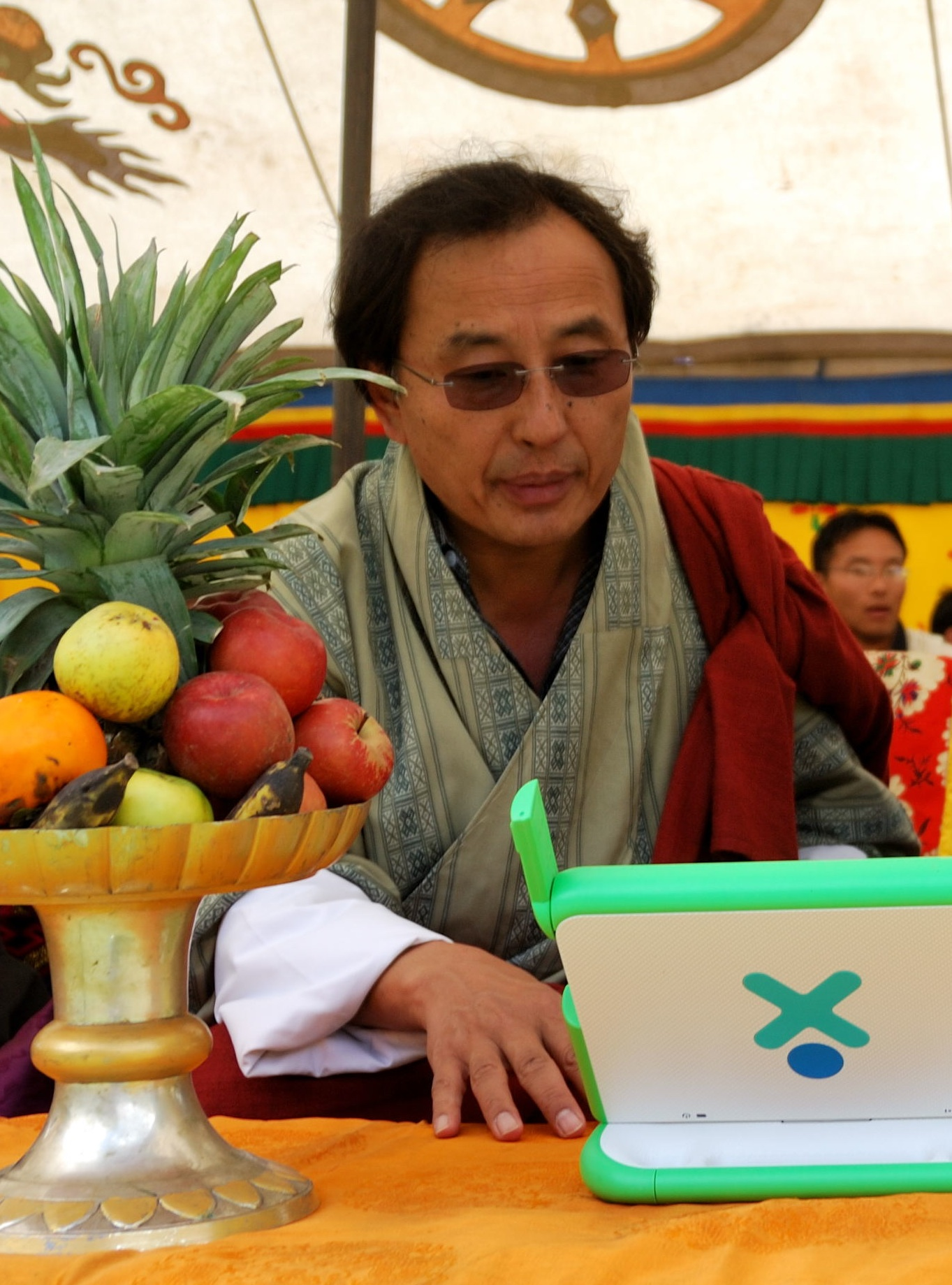 Anthony showing the XO to Dasho Kinley Dorji, Secretary of the Ministry of Information & Communications of the Royal Government of Bhutan